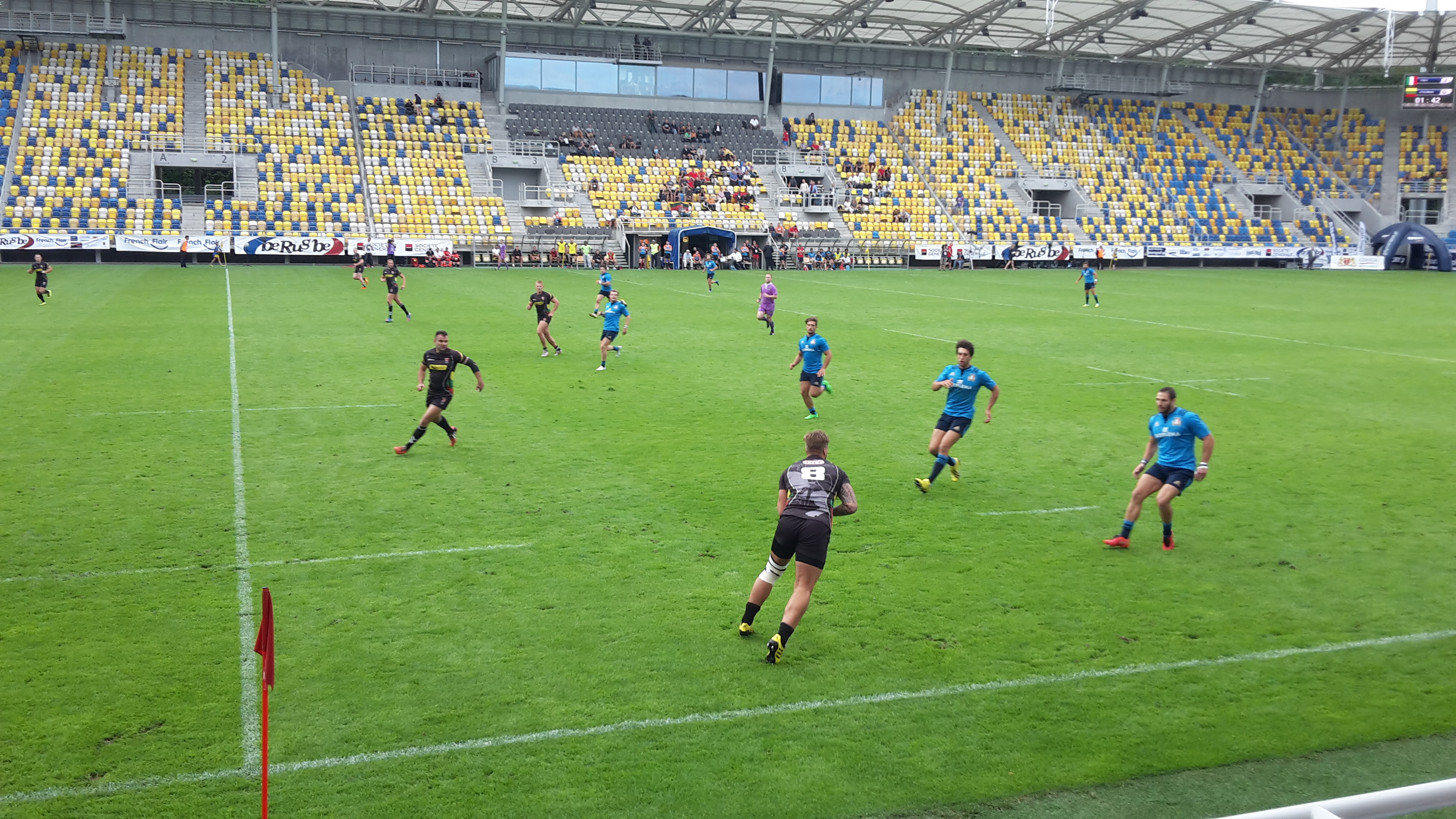 Rugby sevens tournament Gdynia Sevens 2016. Match Italy-Lithuania.